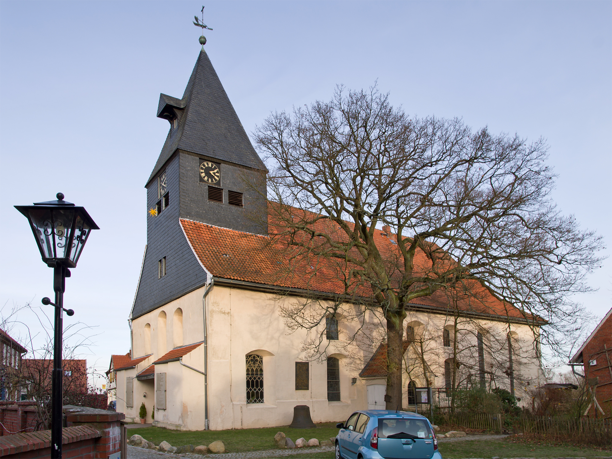 Church of Hitzacker (district Lüchow-Dannenberg, northern Germany).